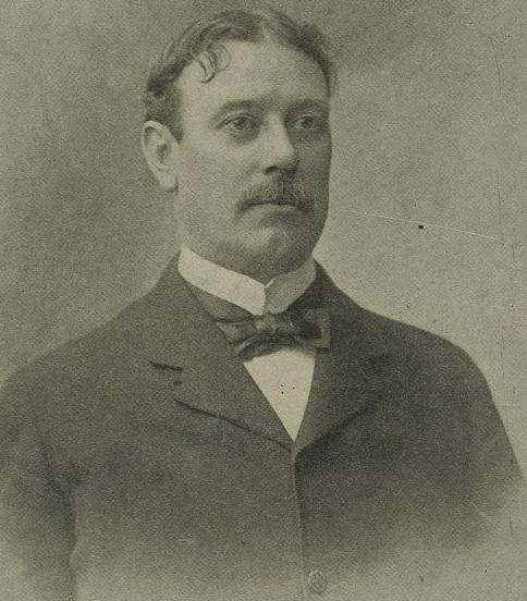 Frank T. Fitzgerald, Congressman from New York